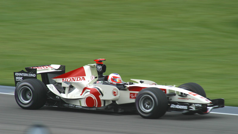 Rubens Barrichello driving for Honda F1 at the 2006 United States Grand Prix.